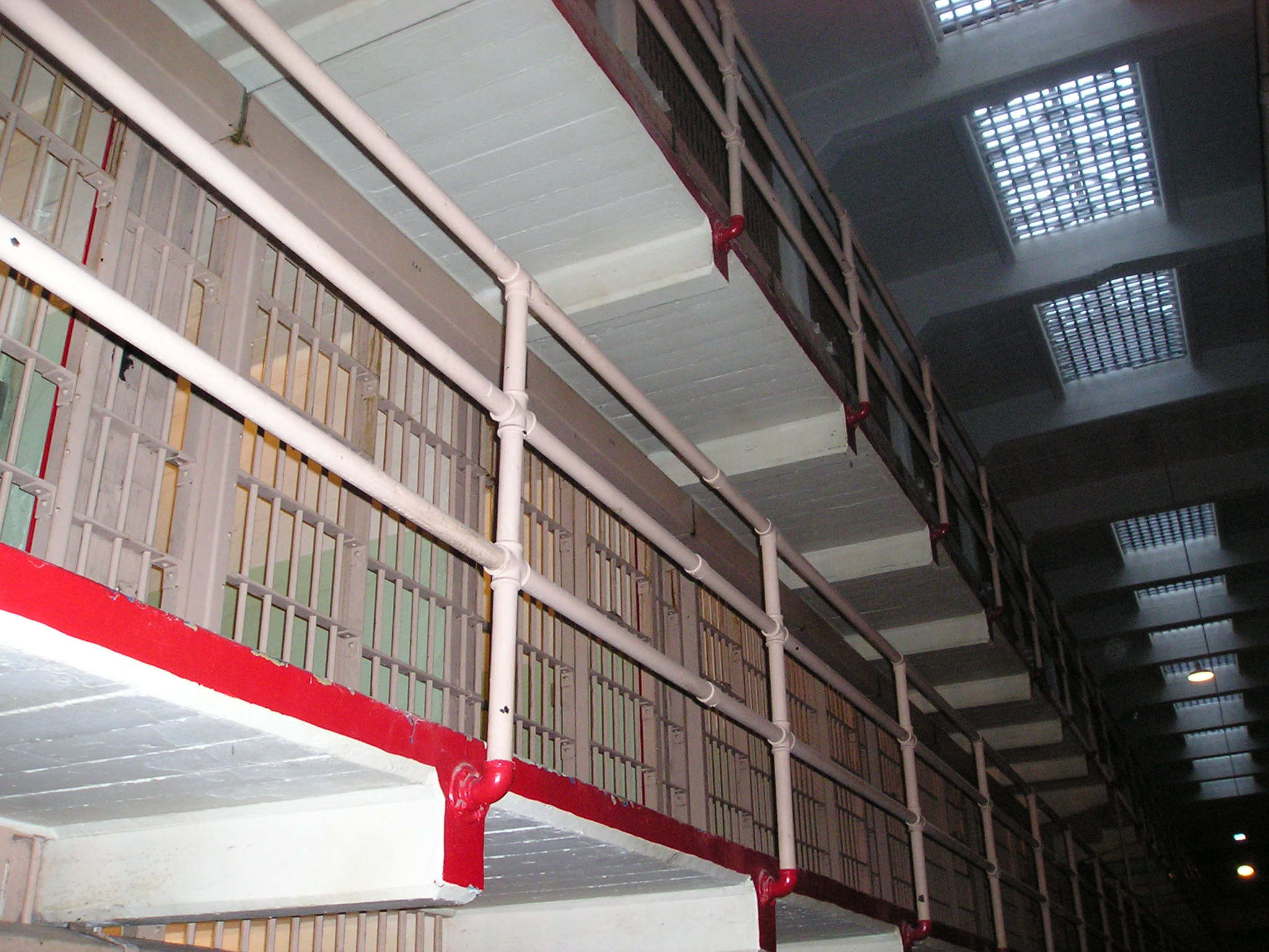 View of a row of cells in Alcatraz